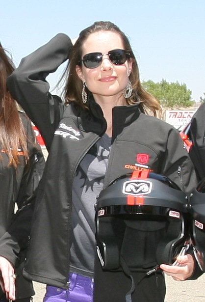 Kimberly Williams-Paisley